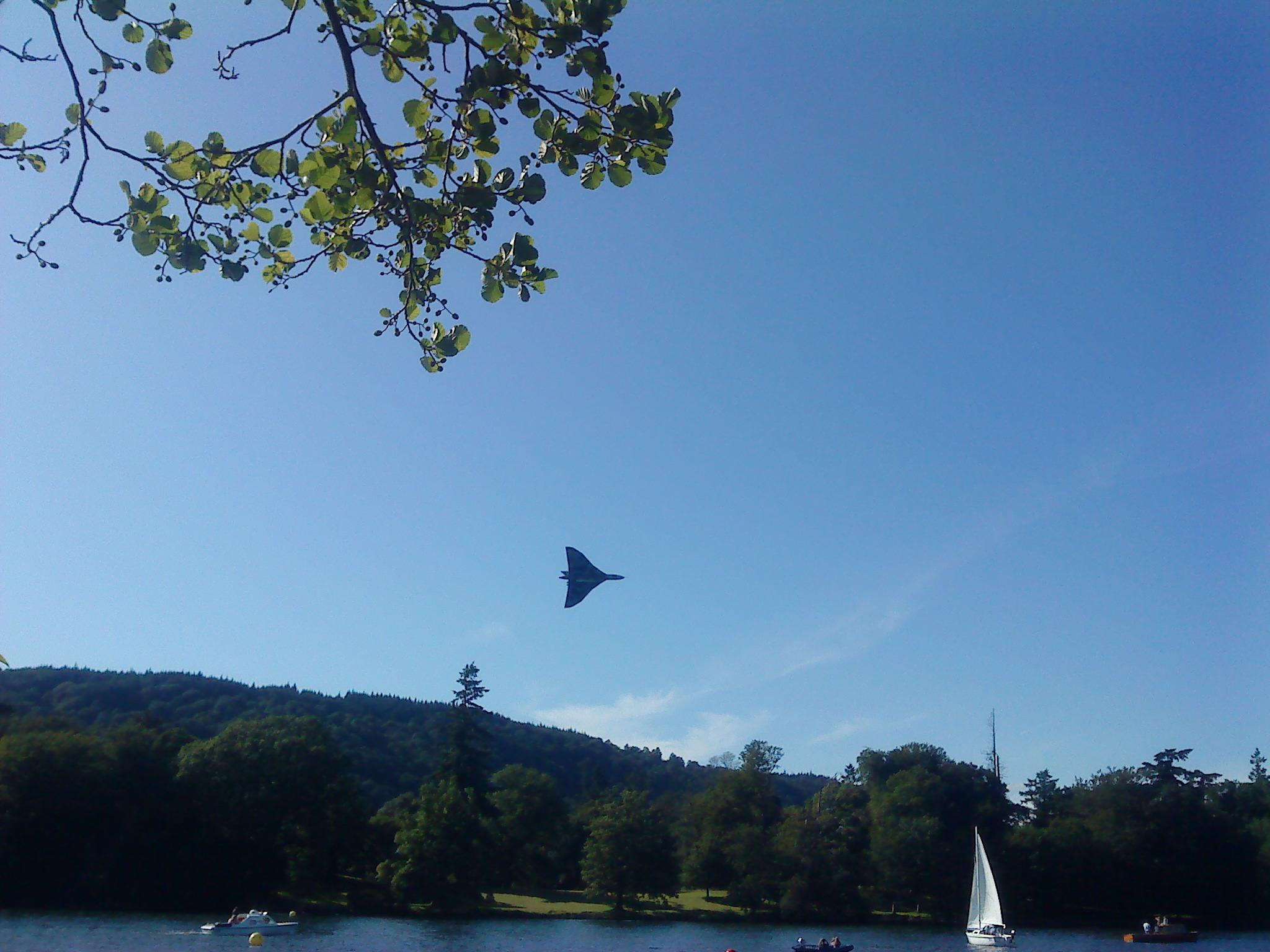 Avro Vulcan doing a flypast at the Windermere Air Show 2009